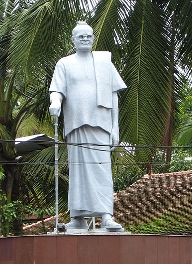 Mannam Statue at Vaikom